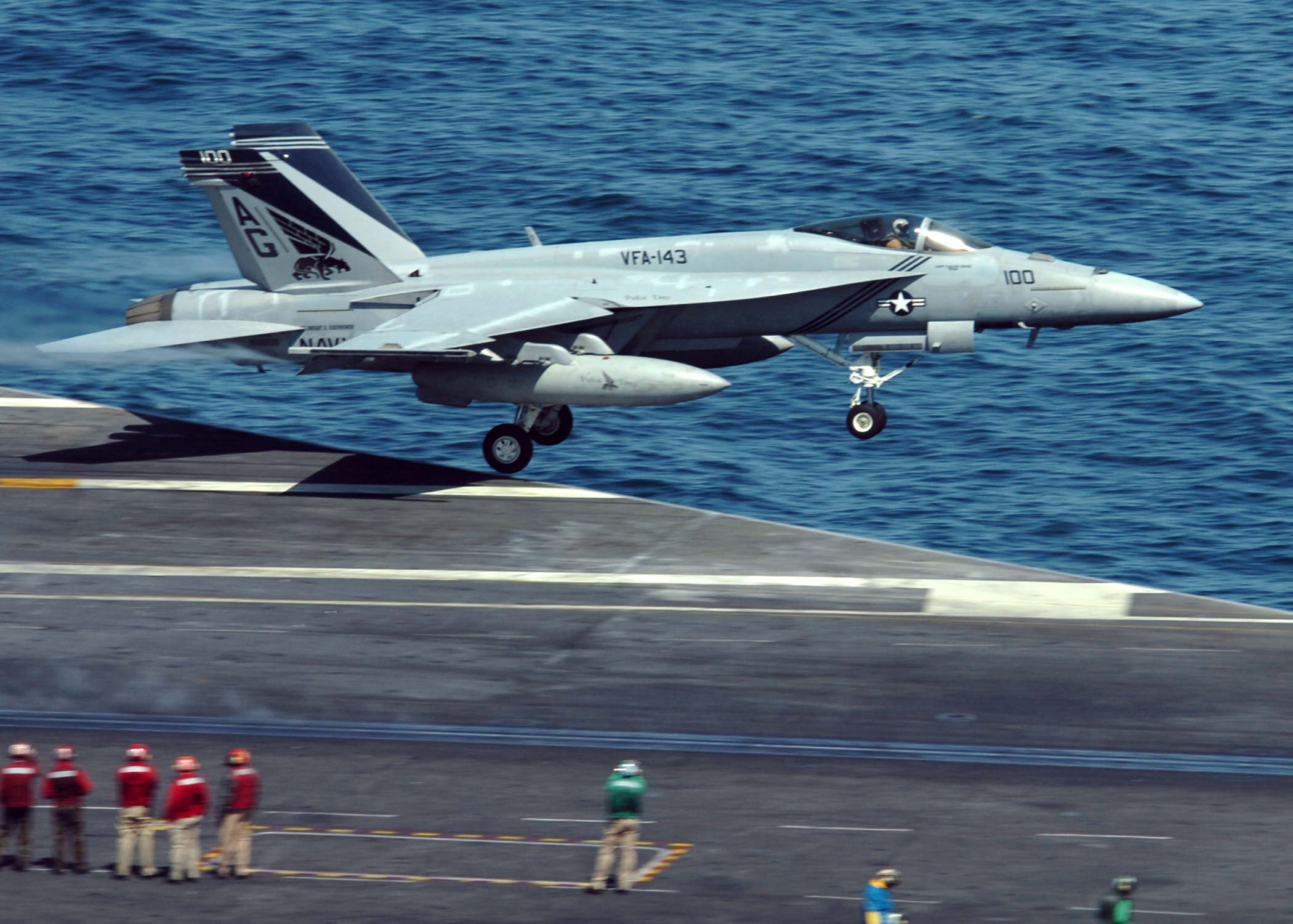 Atlantic Ocean (May 22, 2007) - An F/A-18E Super Hornet from the "Pukin Dogs" of Strike Fighter Squadron (VFA) 143 launches from the flight deck of the Nimitz-class aircraft carrier USS Dwight D. Eisenhower (CVN 69). Eisenhower and embarked Carrier Air Wing (CVW) 7 are returning from an eight-month deployment in support of Maritime Operations (MO). MO helps set the conditions for security and stability in the maritime environment, as well as complement the counter-terrorism and security efforts of regional nations. U.S. Navy photo by Mass Communication Specialist Seaman David Danals (RELEASED)